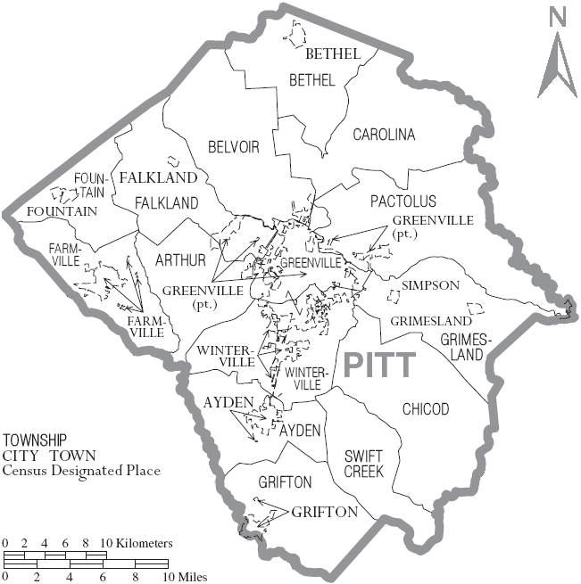 Map of Pitt County, North Carolina, United States with township and municipal boundaries